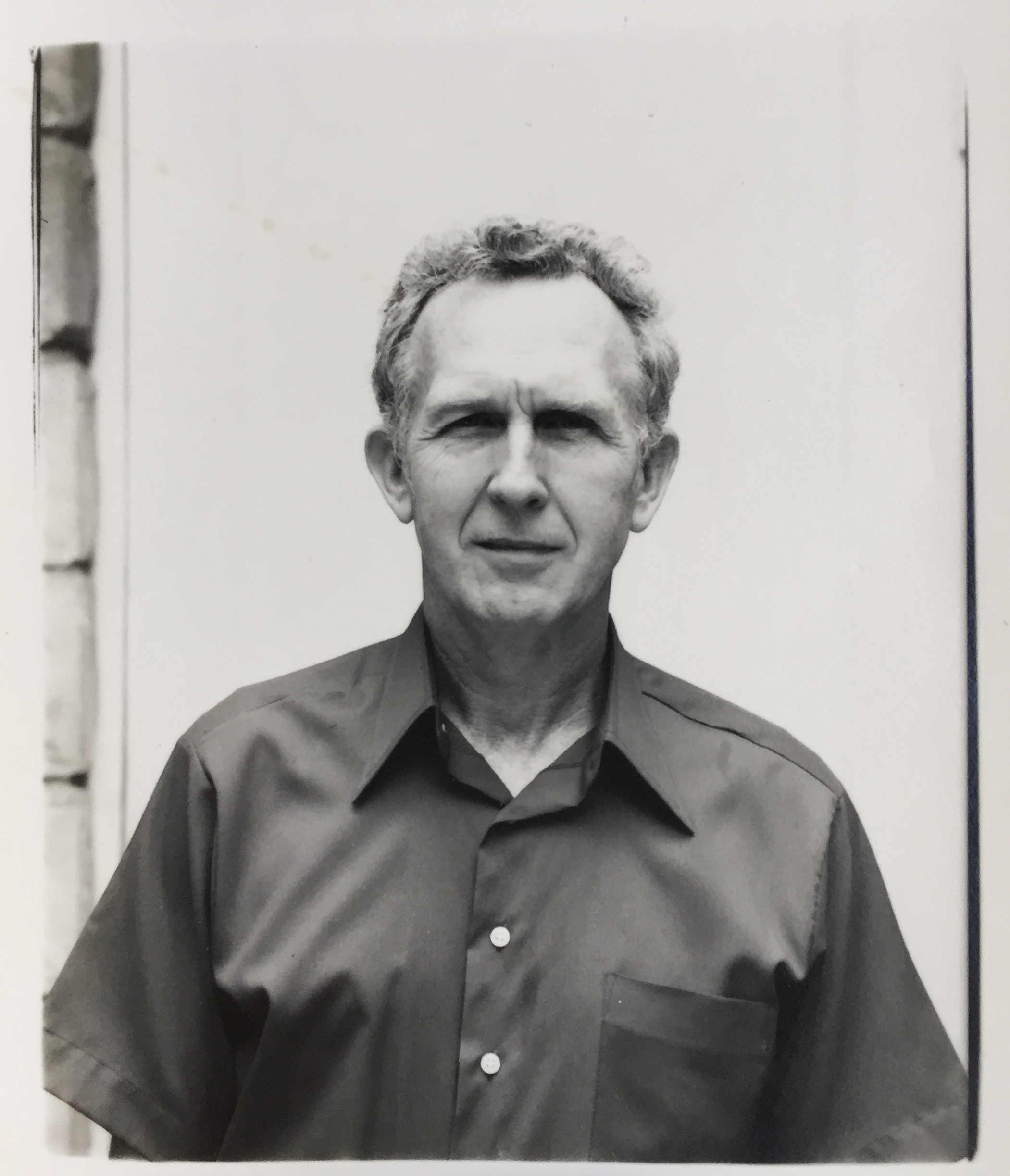 Gene Hatfield Headshot